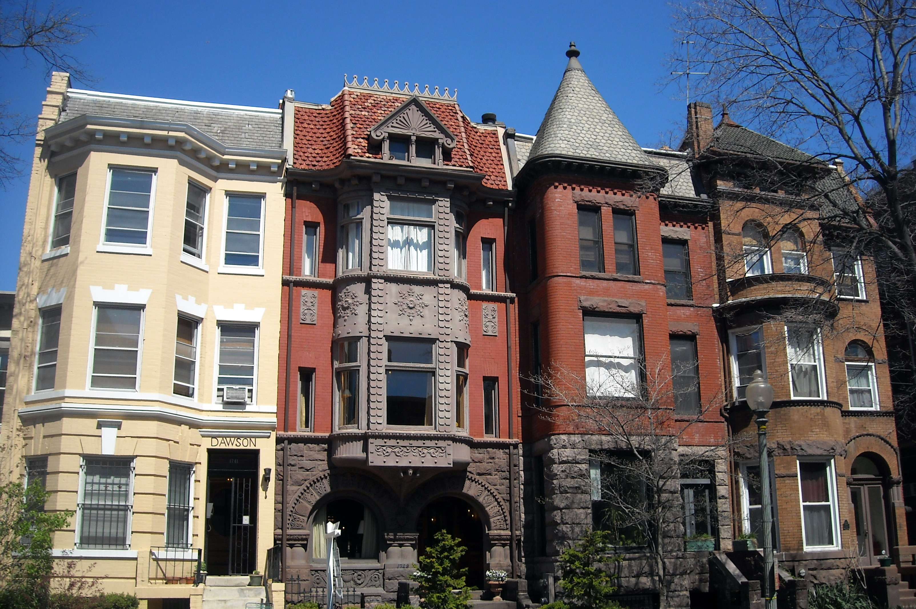 Row houses located at (from right to left) 1735-1741 S Street NW in the Dupont Circle neighborhood of Washington, D.C. The homes are designated as contributing properties to the Dupont Circle Historic District, listed on the National Register of Historic Places in 1978. 1735 S Street - Built in 1896, the Queen Anne style home previously served as the residence of Colonel Irvin L. Hunt (see USAT Irvin L. Hunt ), offices for A.U. Software, Inc., and offices for the Center for the Advancement of Public Policy. 1737 S Street - The Queen Anne style home was built for J. L. Rogers in 1892 and designed by Calvin Brent , Washington's first black architect. Previous occupants include auditor for the Treasury Department W. A. Rogers, pension officer William H. Pearce, chemist William Harold Smith, the 20th century's first African American shipman James Lee Johnson, Jr., educator Lydia Brown, and Vice President and CEO of the American Psychological Association psychiatrist Leonard D. Goodstein. 1739 S Street - Designed in 1892 by architect Nicholas T. Haller – to serve as his private residence – the Richardsonian Romanesque style building has also been home to educator Fannie Haller, Representative James Wolcott Wadsworth , chief clerk to the Treasury Secretary Theo F. Swayze, physician James G. McKay, physician Aubrey H. Staples (who later has his medical license revoked for "Veterans' Bureau fraud"), and African American religious leader Bishop E.D.W. (Edward Derusha Wilmot) Jones. 1741 S Street - Built in 1906 for real estate developer Clarence B. Might at a cost of $8,000, the Queen Anne style seven-unit Dawson condominium is a former apartment building designed by architect Albert H. Beers.